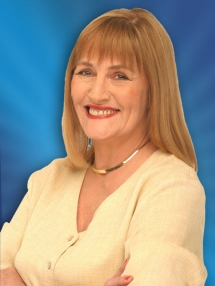 Dene Smuts Shadow Minister Justice and Constitutionanl Development DA